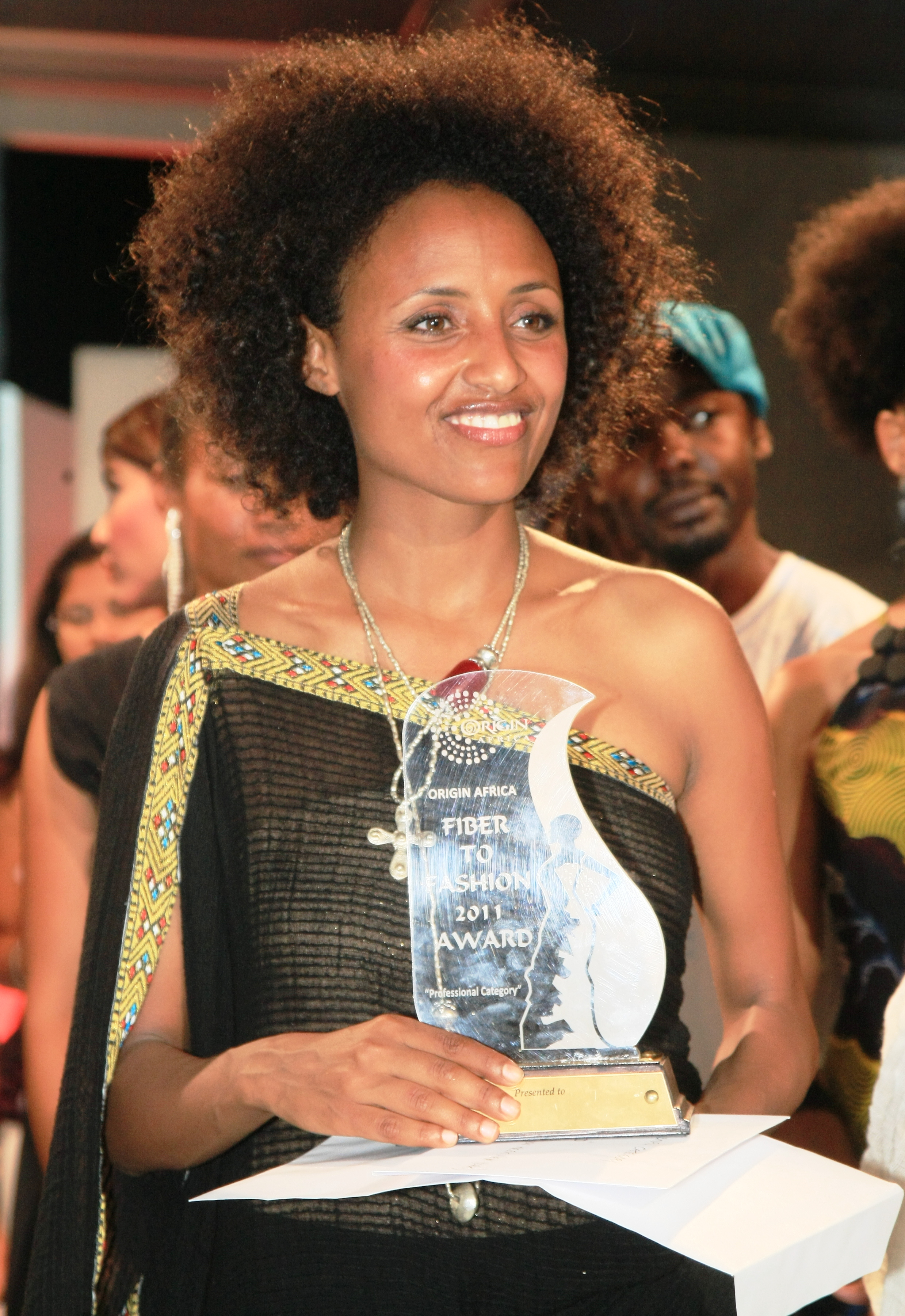 Ethiopian designer Fikirte Addis won the Designer Showcase Award and will be a featured designer at Africa Fashion Week New York in July 2011. USAID supported the Origin Africa Fiber to Fashion Event in Mauritius, March 2011. Photo credit: USAID/COMPETE.